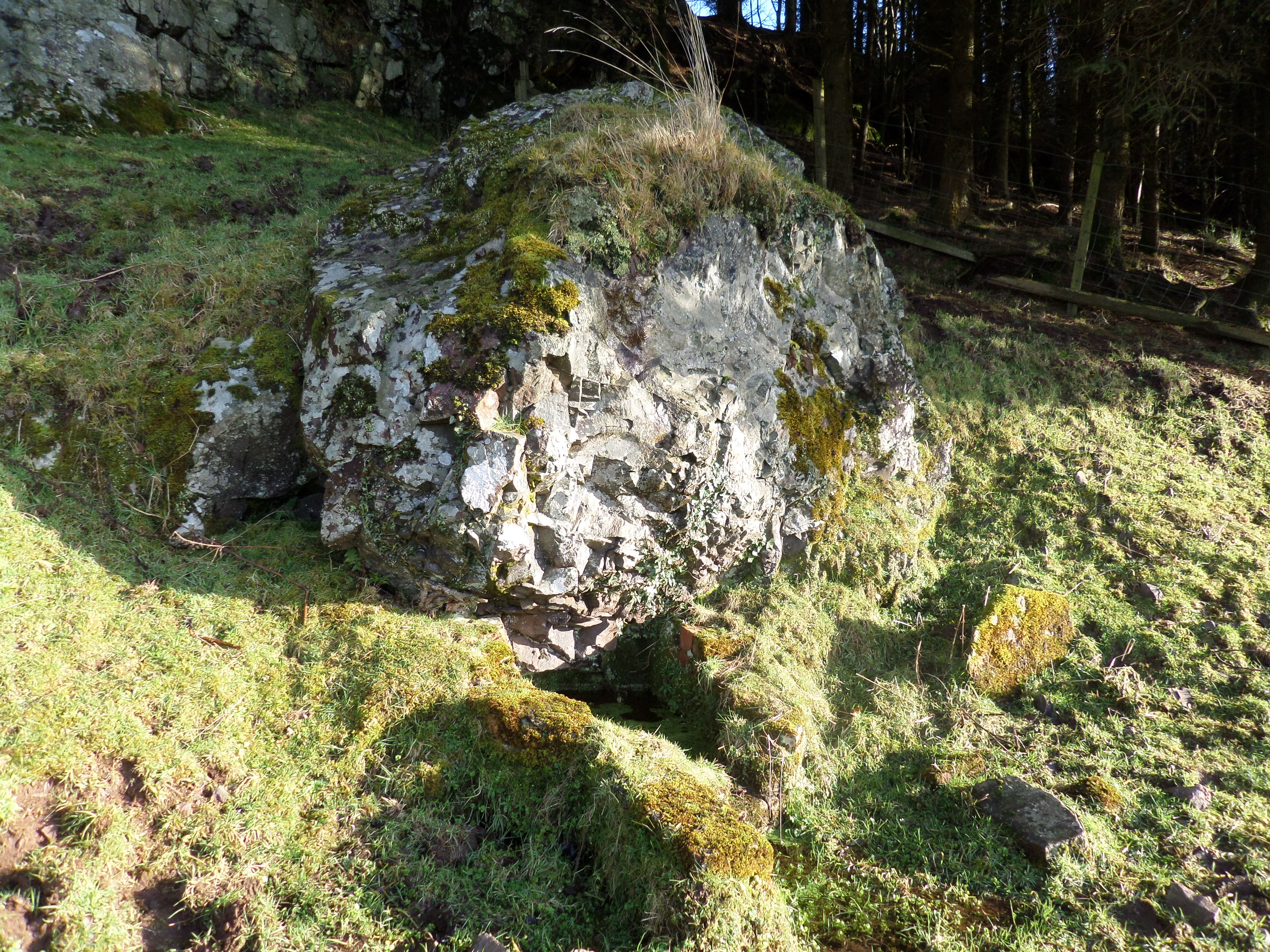 St Fillan's Holy Well and spring site, Kilallan, Renfrewshire. Boulder and the ruins of the well basin. Once also a clootie well with strips of cloth tied to the shrubs that overhung the well. The water was said to cure childhood rickets.